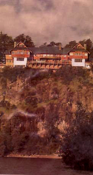 The New National Hotel "Victoria Island", in the center of the Victorian Island, Lago Nahuel Huapi, Argentina.